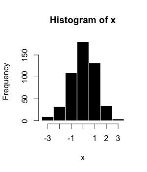 plot generated using R from simulated data